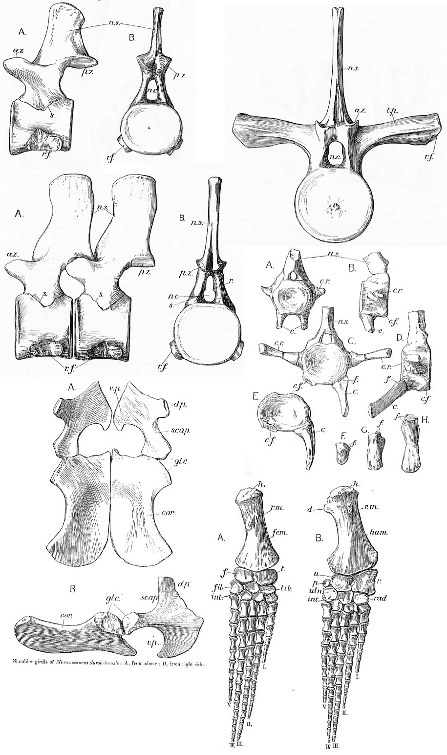 M. beloclis bones.